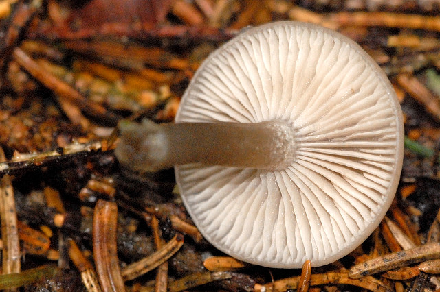 Clitocybe vibecina from Commanster, Belgium. If you think this is a different taxon, please contact James Lindsey.